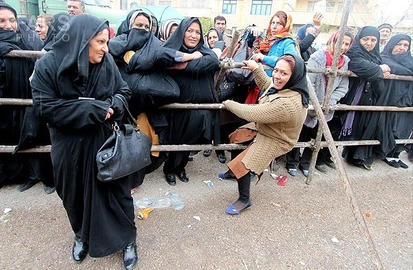 Distribution of the basket of goods, Shiraz - 3 February 2004 (13921114160740158)